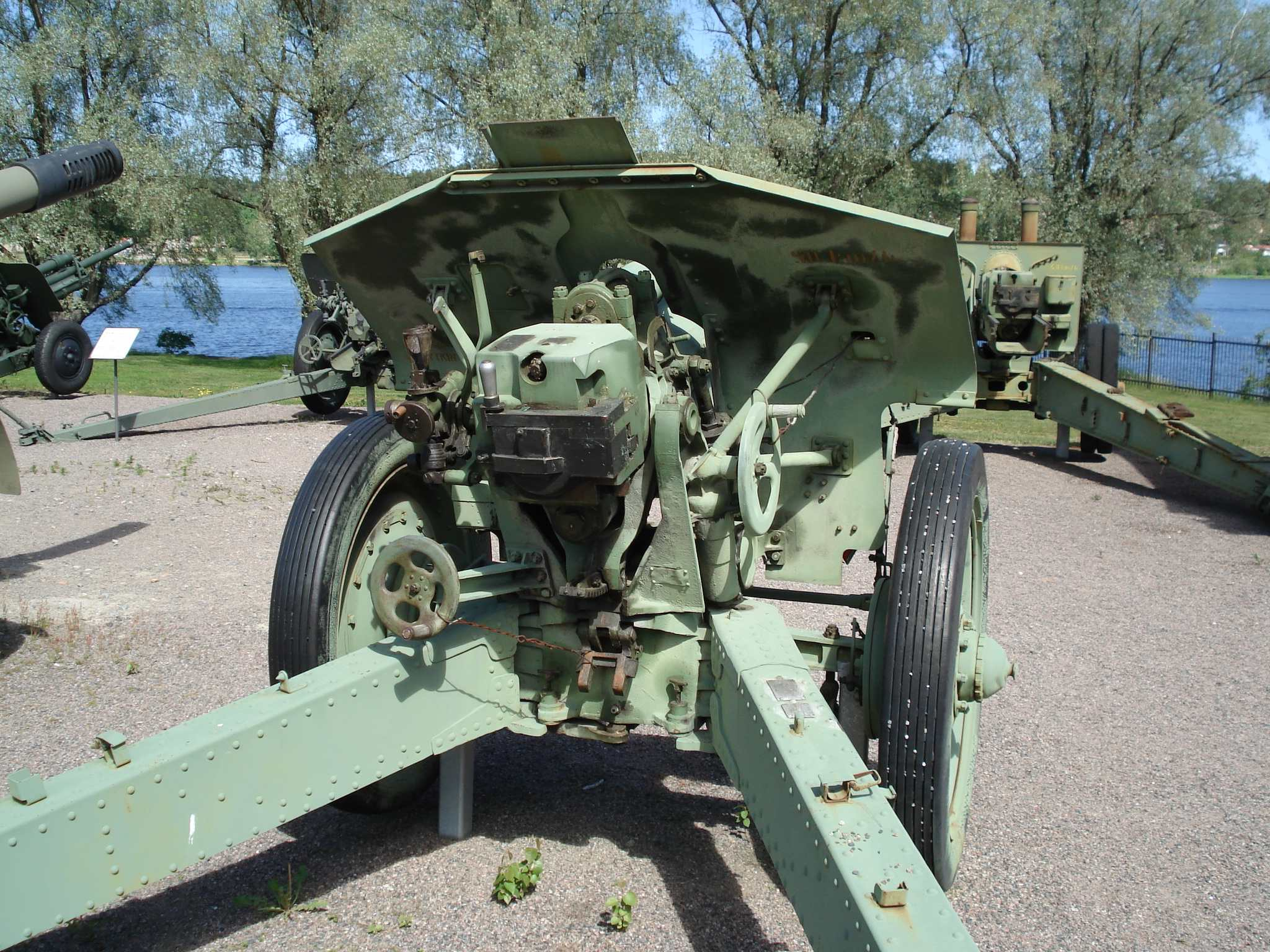 Soviet M-30 122 mm howitzer model 1938, displayed in Hämeenlinna Artillery Museum. Photo taken on June 18, 2006. Source: Photo by me, User:Balcer.